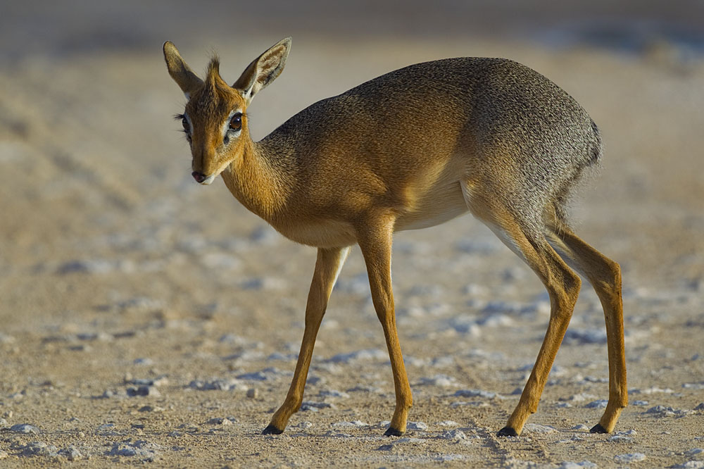 Damara dik-dik (Madoqua kirkii) female from Etosha National Park, Namibia